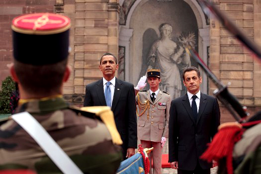 President Barack Obama and France's President Nicolas Sarkozy stand together on Friday, April 3, 2009, during the review of an honor guard at the Palais Rohan in Strasbourg, France.